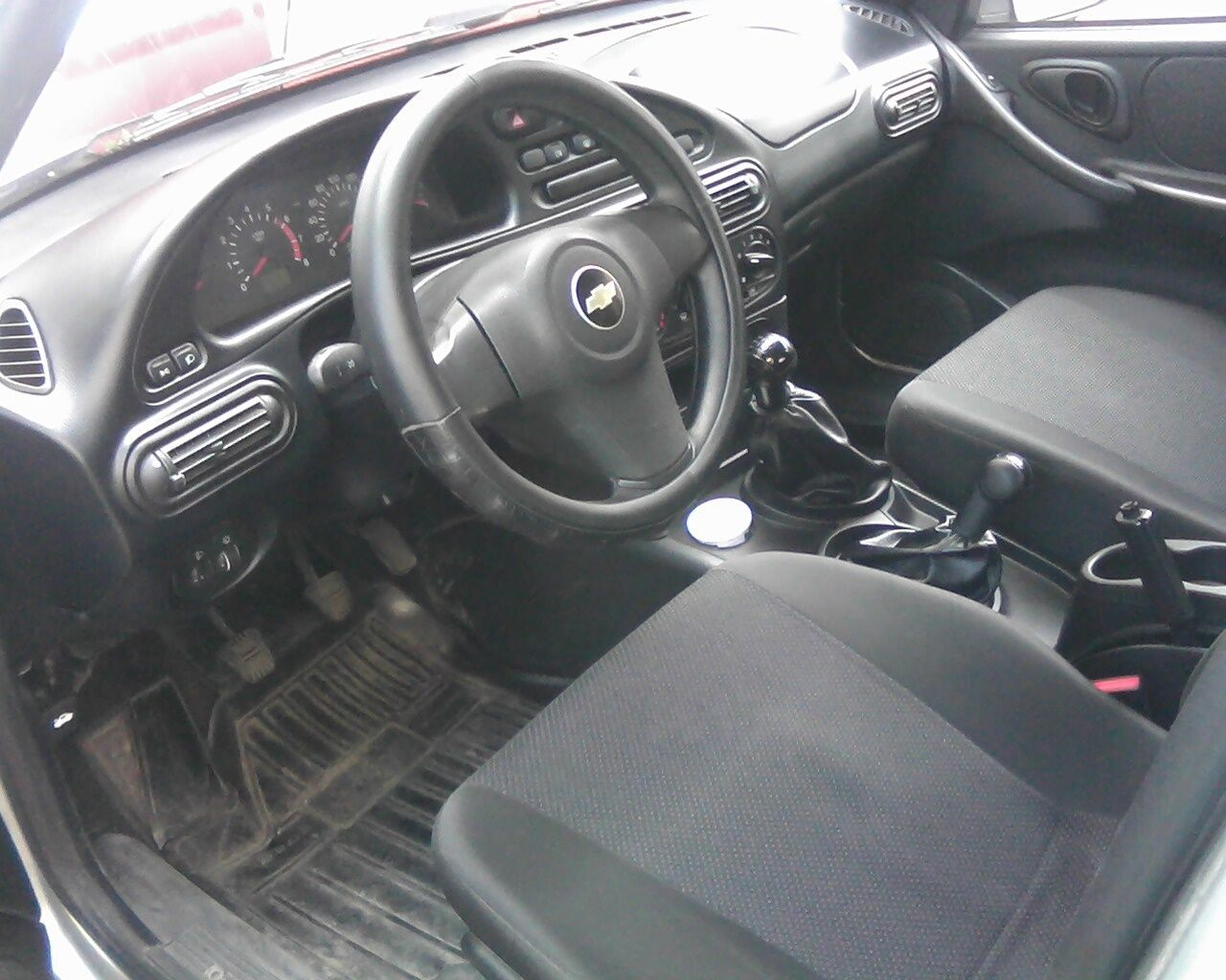 Chevrolet Niva